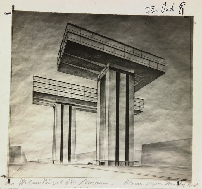 El Lissitzky, Cloud Iron, Wolkenbügel, 1925.